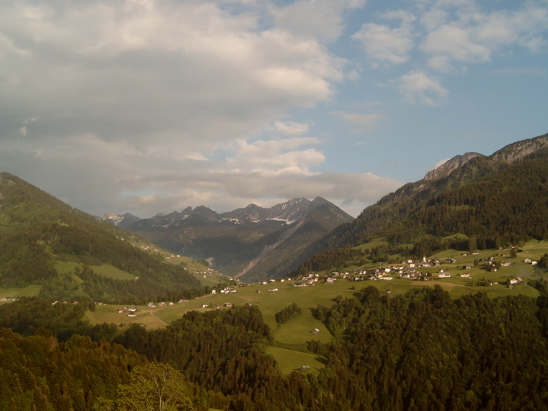 Raggal ,view to the village